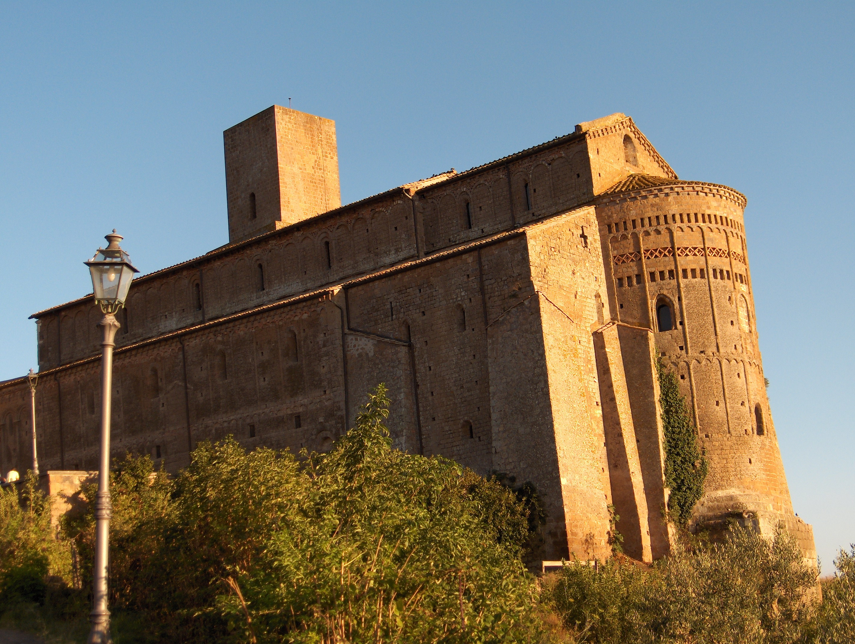 Rear view of San Pietro Basilica (abside) in Tuscania (VT), Italy